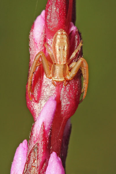 Crab Spider Runcinia sp. on an inflorescence, Goa.